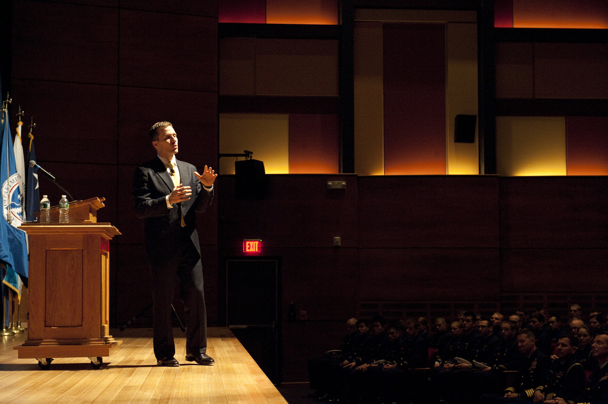 Eric Greitens, an author, photographer and former Navy SEAL, speaks to the corps of cadets at the 22nd Annual Ethics Forum Friday, March 25, 2011, in Leamy Auditorium at the U.S. Coast Guard Academy in New London, Conn. The Ethics Forum is an event where distinguished speakers come to the Academy and host discussions and lectures on various subjects regarding ethics, and ethical dilemmas in order to further develop leaders of character. U.S. Coast Guard photo by Petty Officer 2nd Class Timothy Tamargo